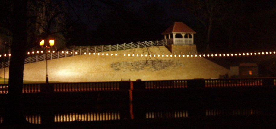 Category:Images of England